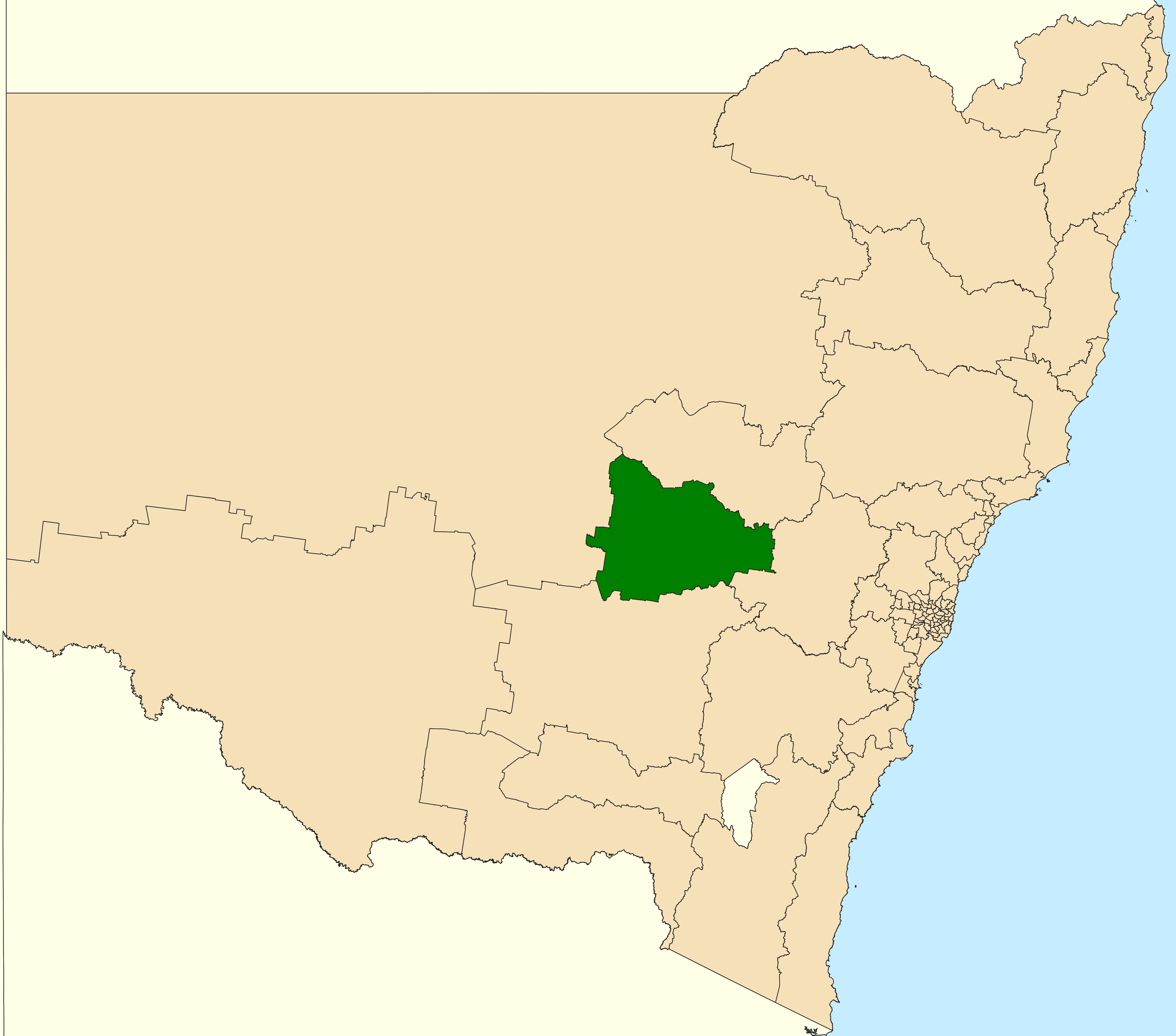 Location of the state electoral district of Orange (dark green) in New South Wales as of the 2019 New South Wales state election. Incorporates or developed using Administrative Boundaries ©PSMA Australia Limited licensed by the Commonwealth of Australia under Creative Commons Attribution 4.0 International licence (CC BY 4.0).